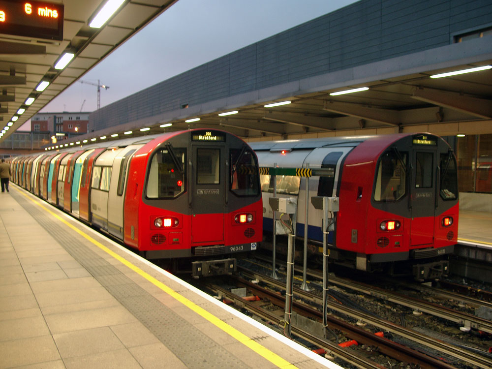 1996 stock used on Jubilee Line by London Underground, standing at their eastern terminus Stratford.